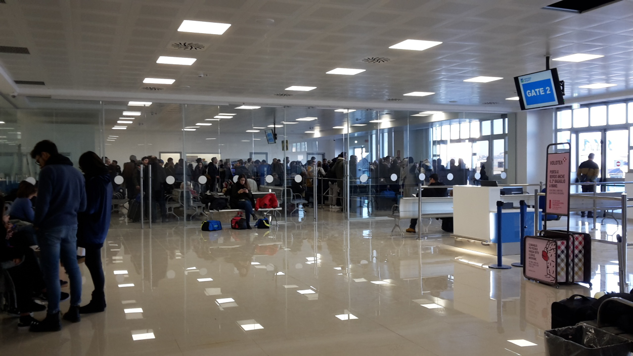 Abruzzo Airport - Detail of New Departures Hall (2019)